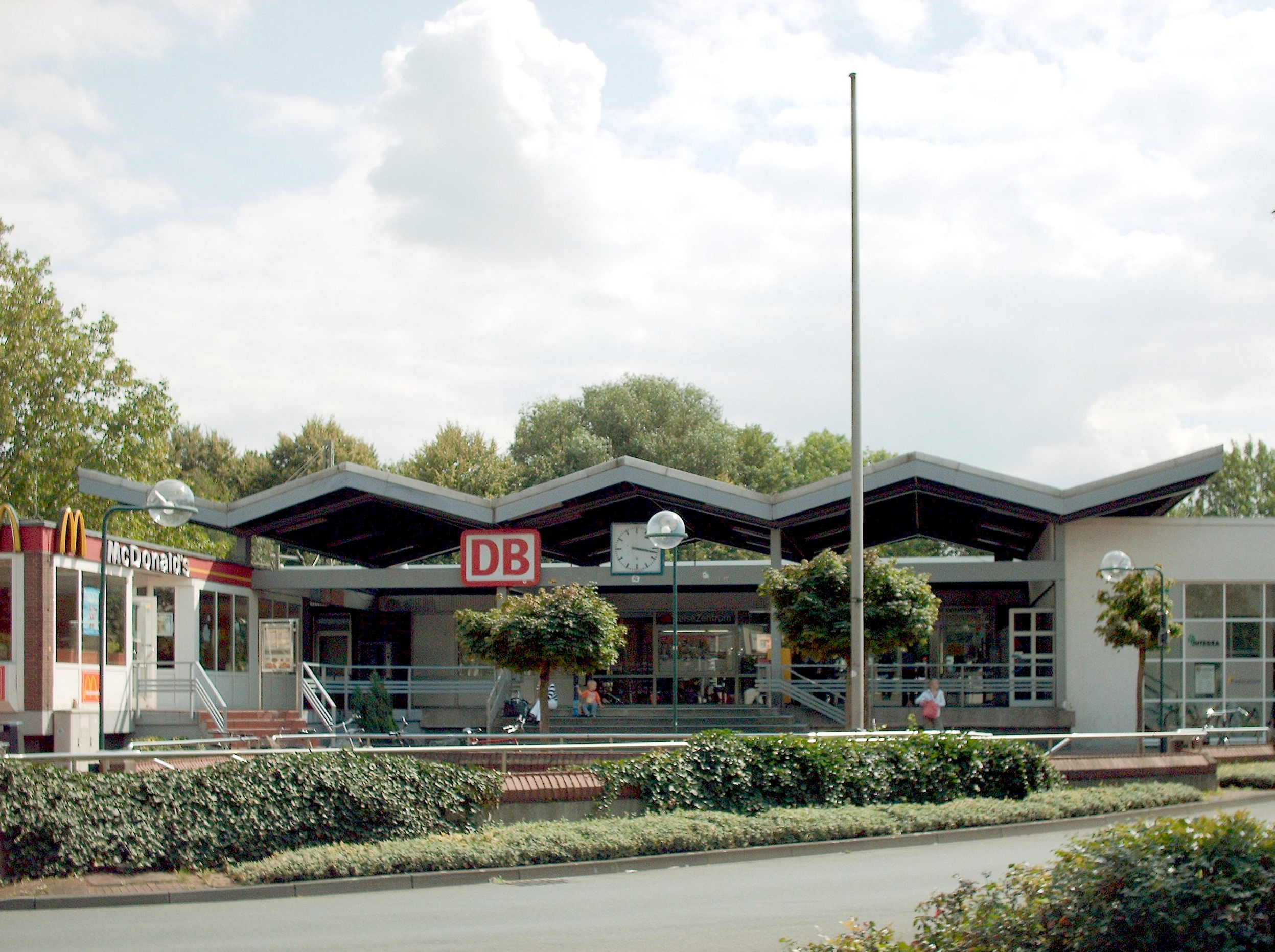 Lippstadt station, Lippstadt, Germany check usage